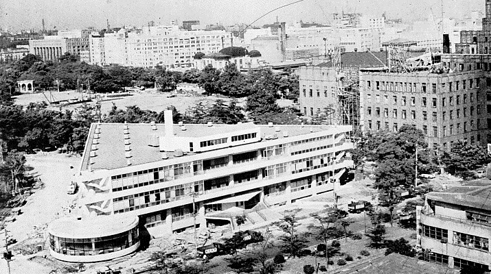 Tokyo Metropolitan Hibiya Library circa 1960